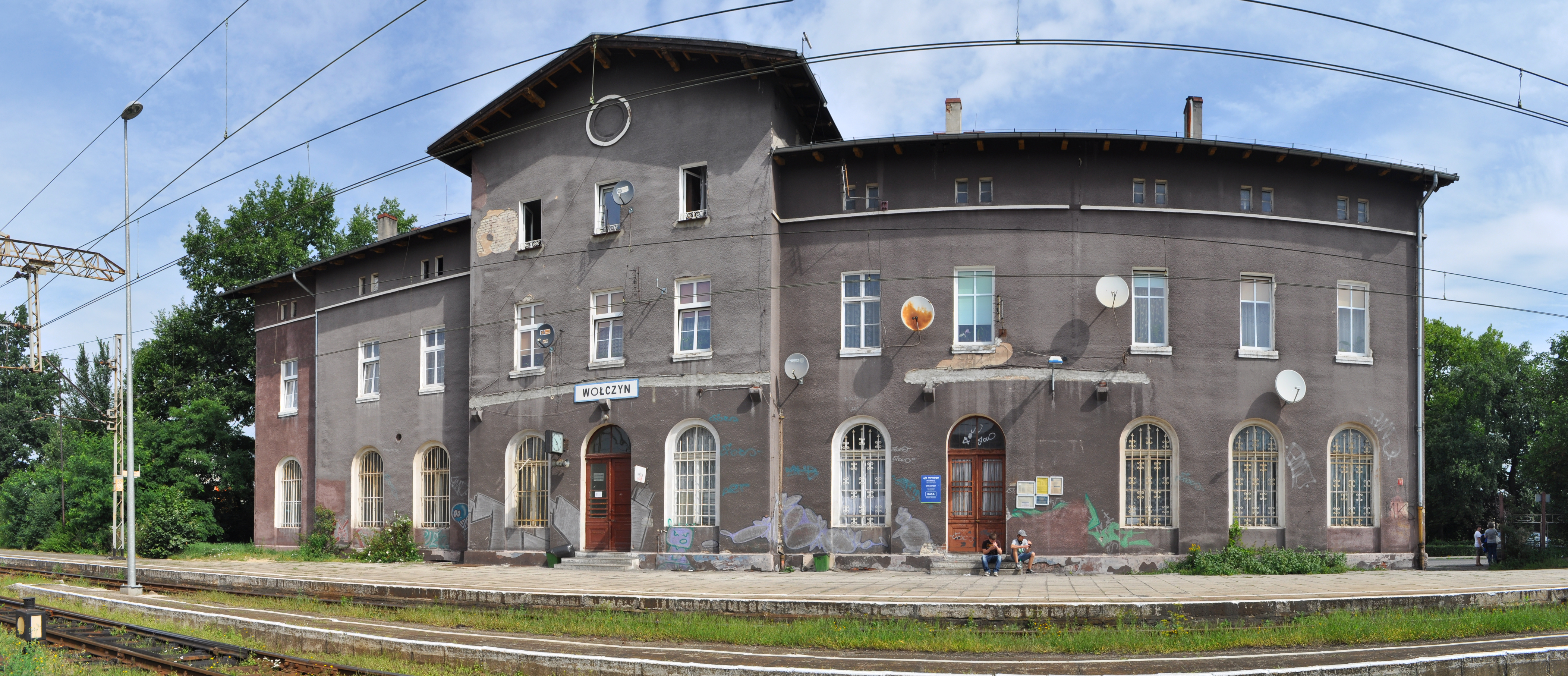 Train station in Wołczyn